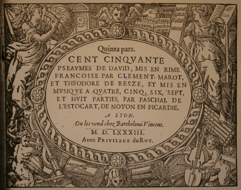 Title page of Lestocart's 150 psalms (1583)